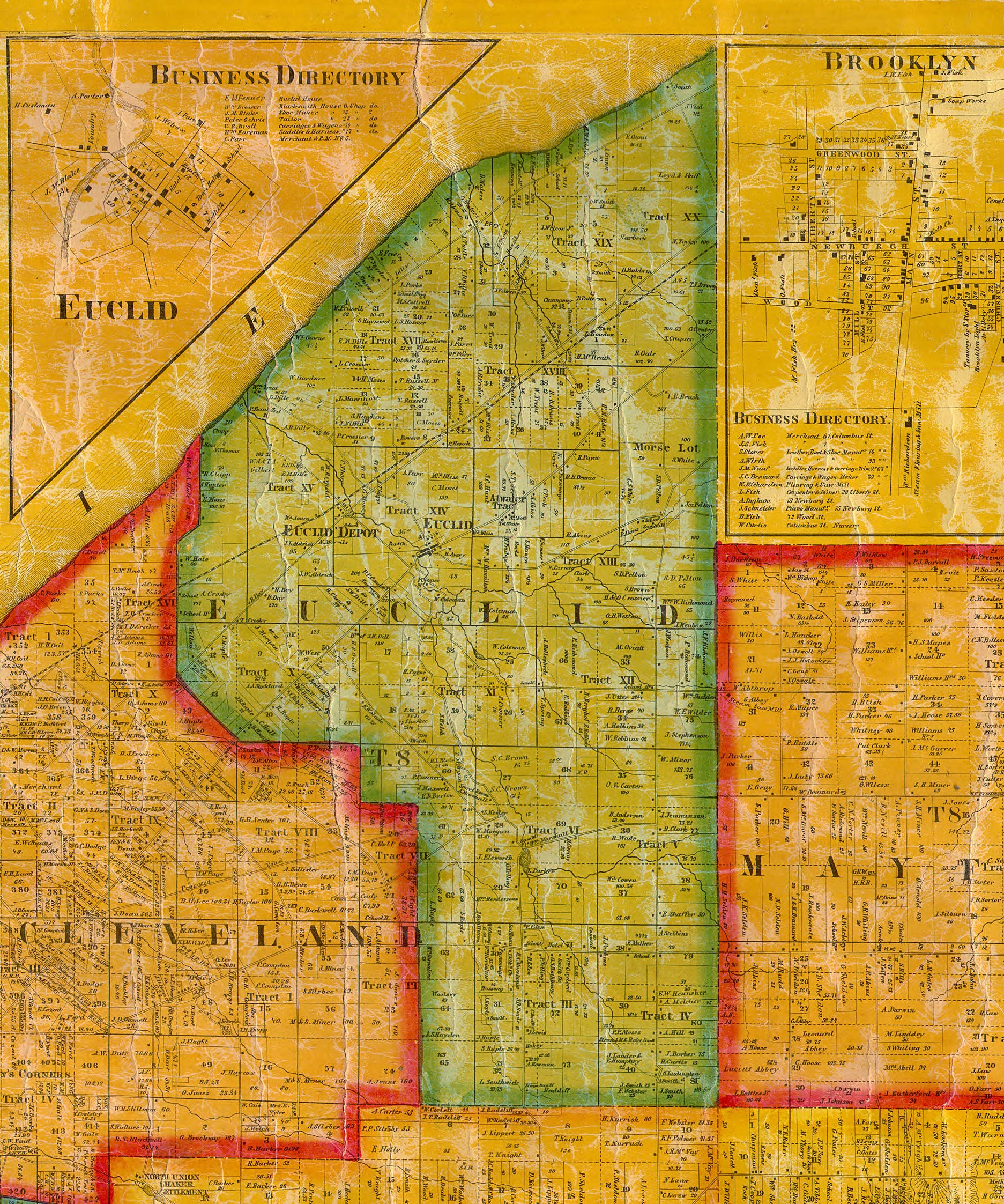 Portion of an 1858 map of Cuyahoga County, Ohio, showing Euclid Township and portions of the surrounding townships.